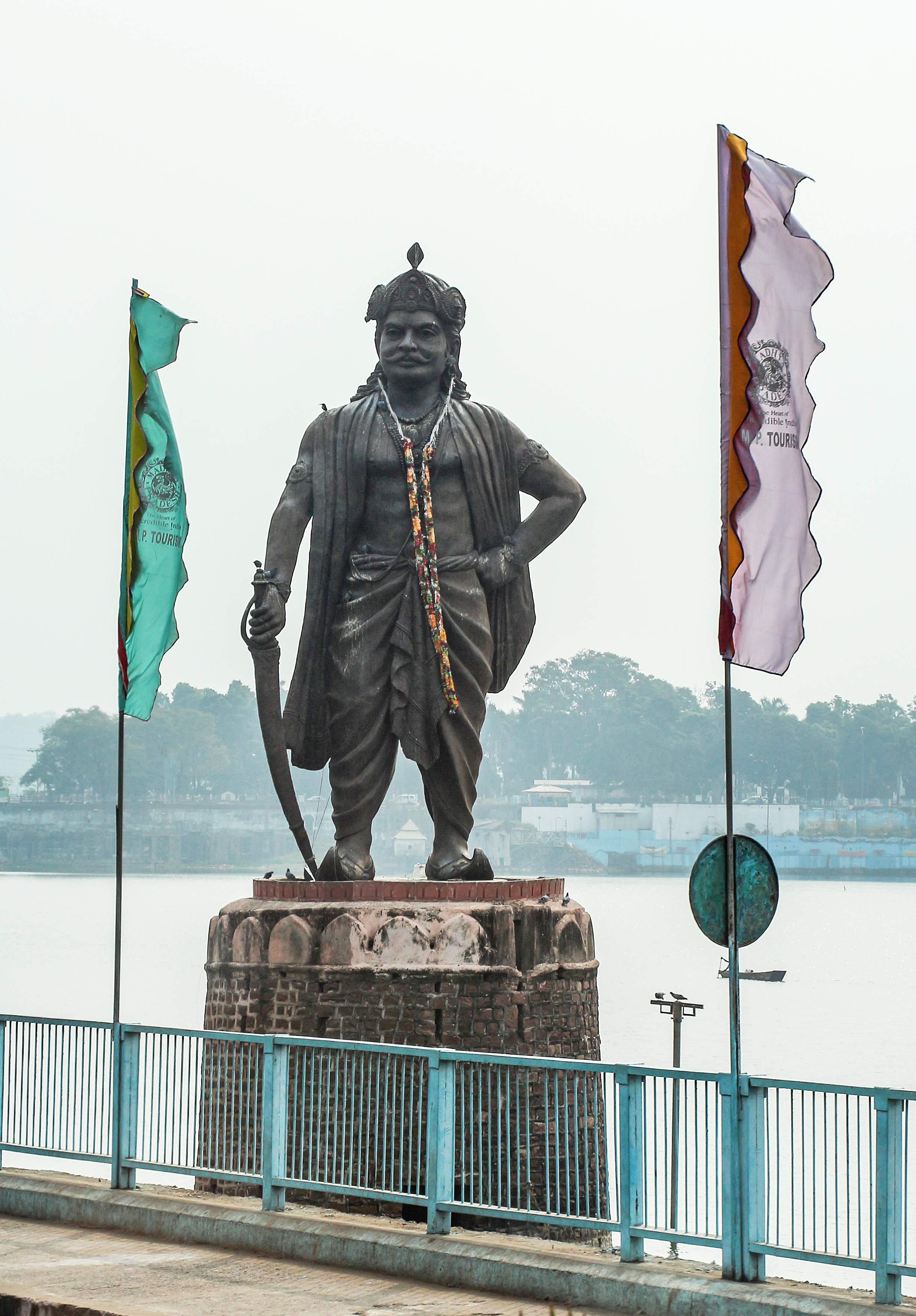 Statue of Raja Bhoja in the Upper Lake in Bhopal, India